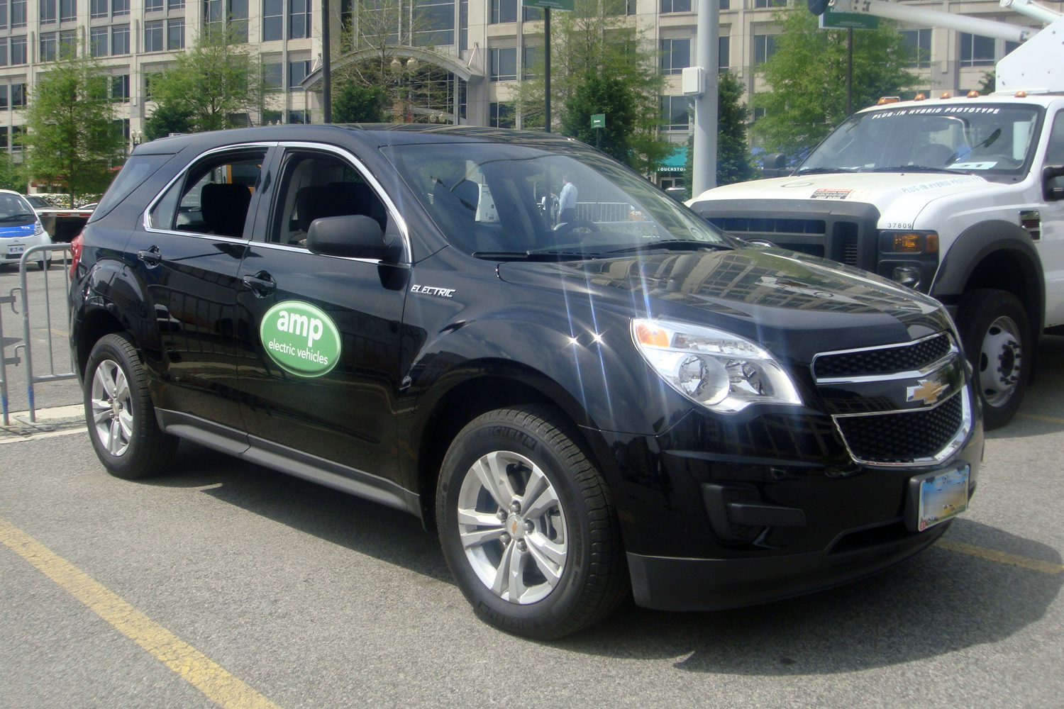 Mitsubishi i MiEV electric cars participating in the Ride, Drive & Charge event organized by the EDTA, downtown Washington, D.C.